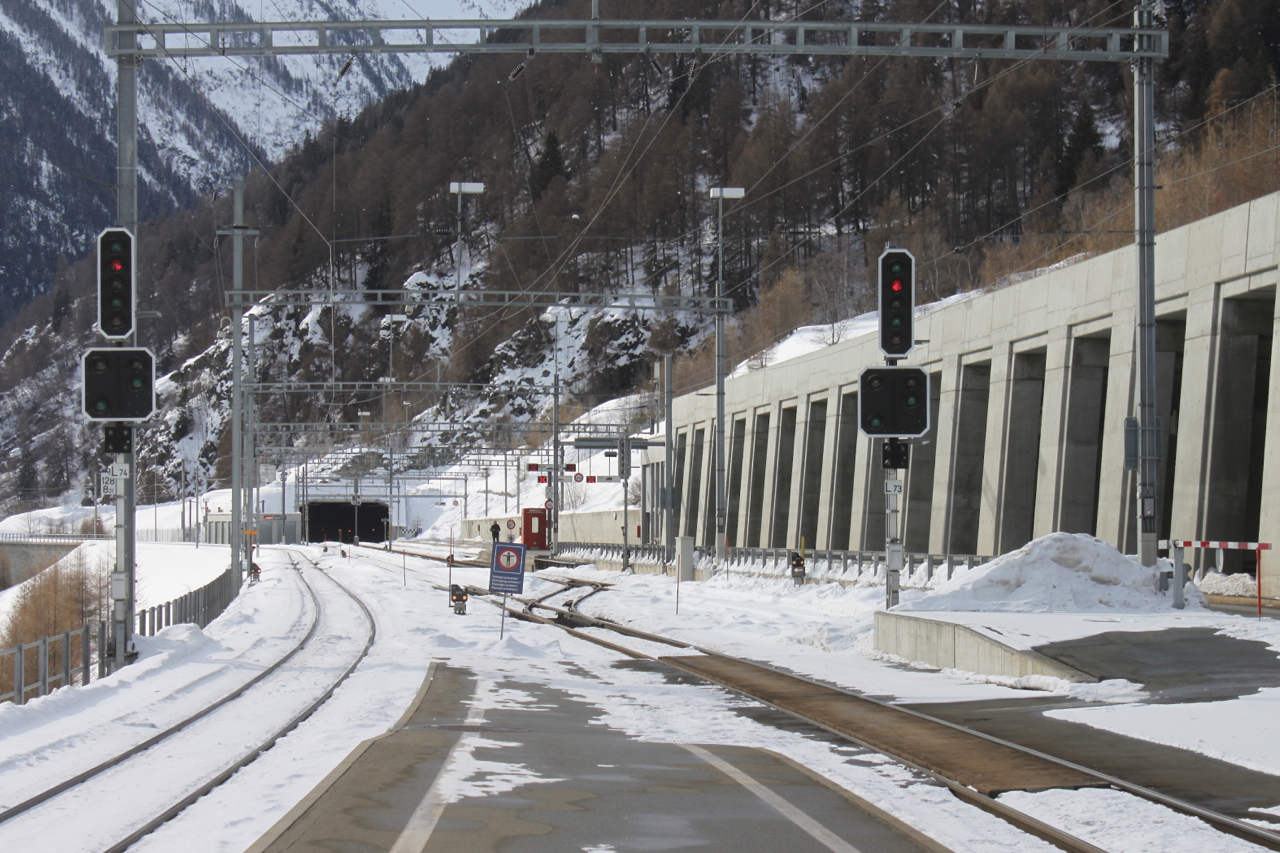 Sagliains train station and Vereina tunnel.